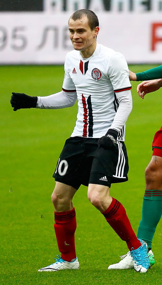 Pavel Komolov with FC Amkar Perm in a game against FC Lokomotiv Moscow.